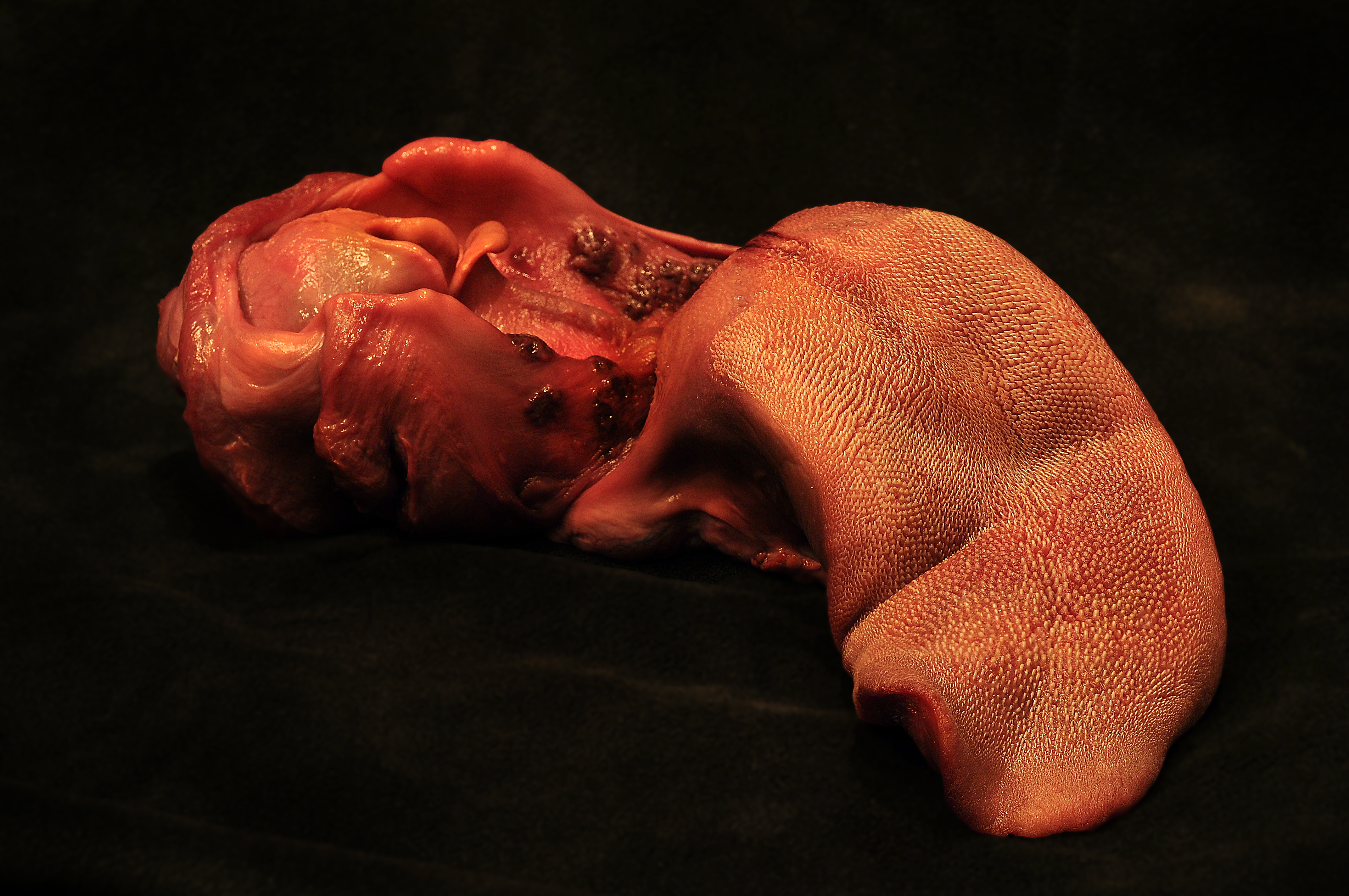 Dissection photograph of a Bengal Tiger tonuge